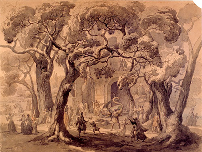 Printing by Auguste Migette. Representation of Saint Clement fighting the Graoully dragon in Metz's Roman amphitheater.